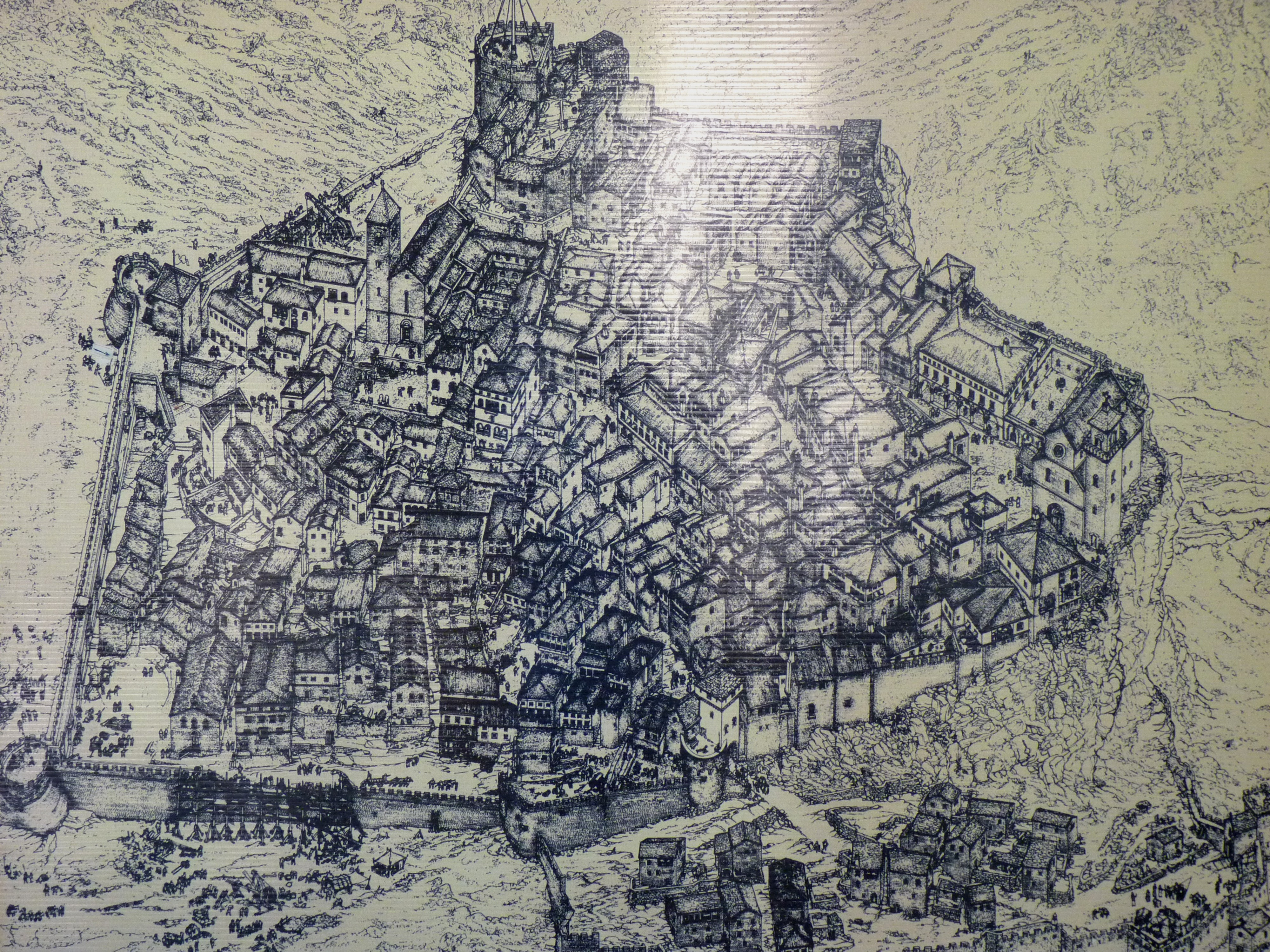 The map of one-time Stari Bar